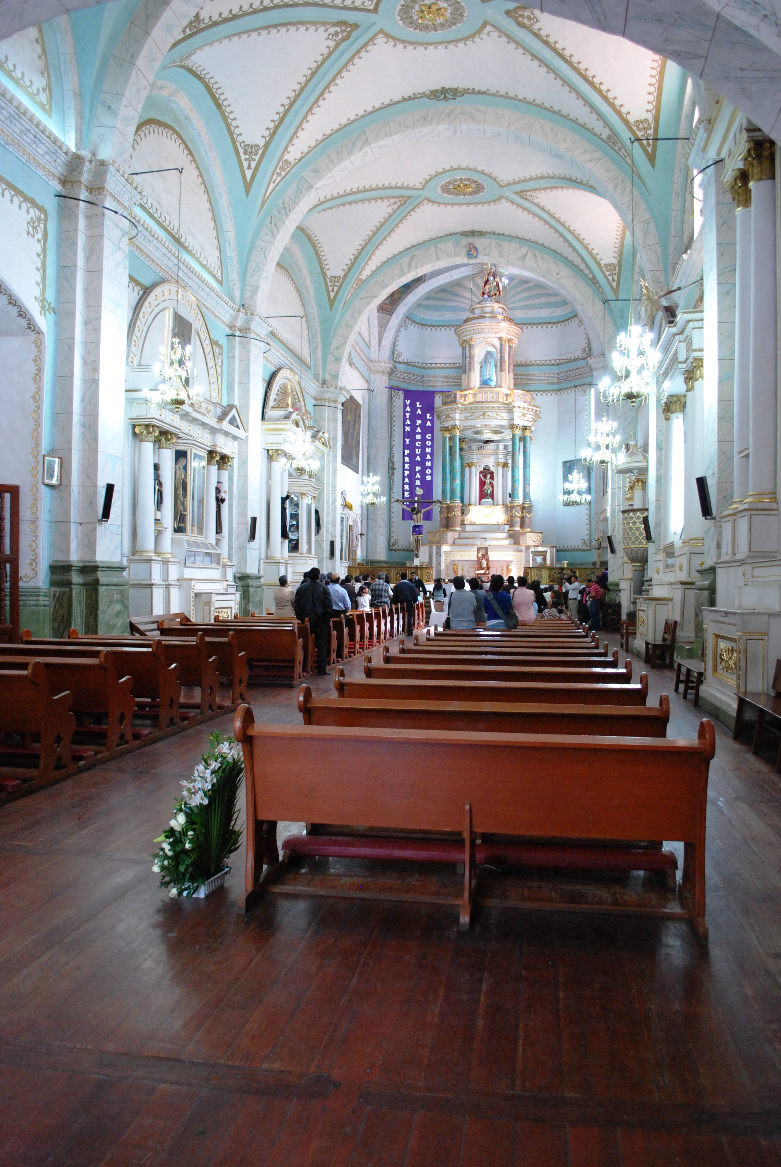 Nave of the main church of Zinacantepec, Mexico State